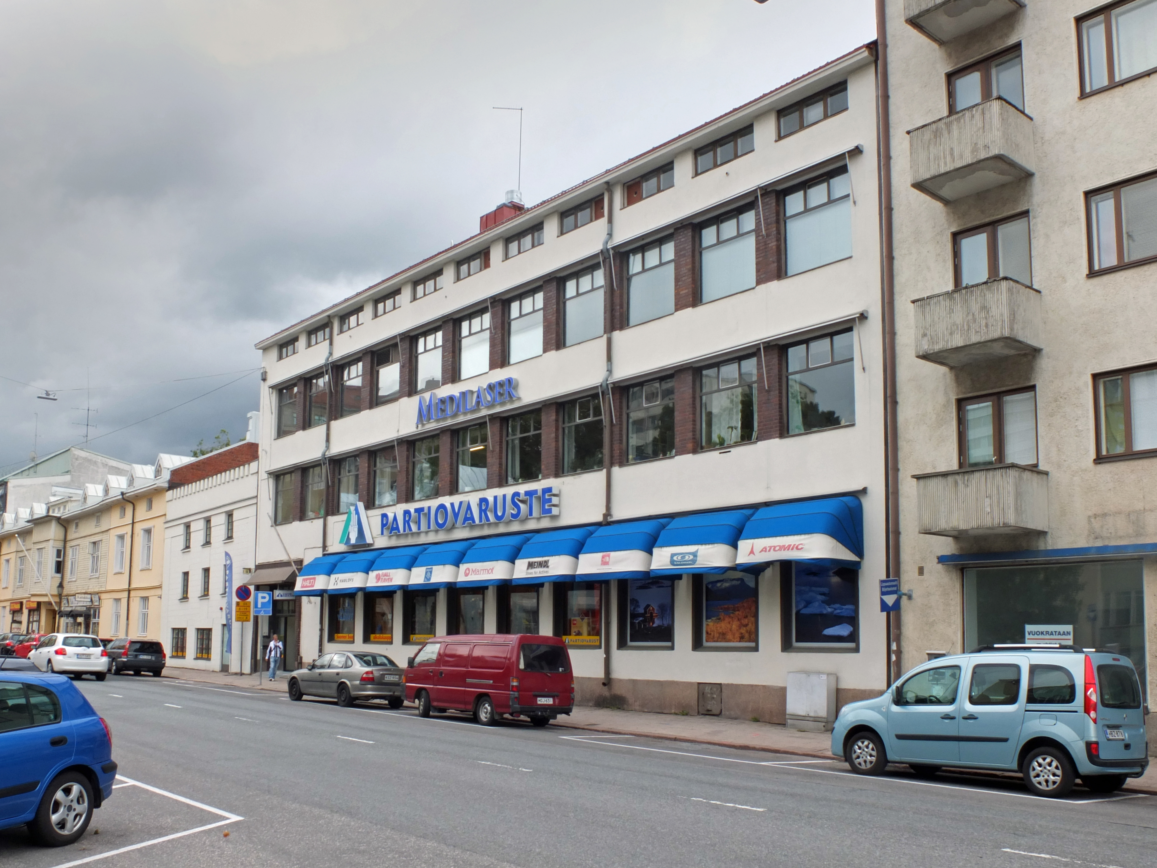 Building of scouts in Turku, including the district bureau, an outdoor equipment store (Partiovaruste, later moved away), the Finnish Scout Museum and unrelated businesses renting premises. Läntinen Pitkäkatu, Turku, Finland.